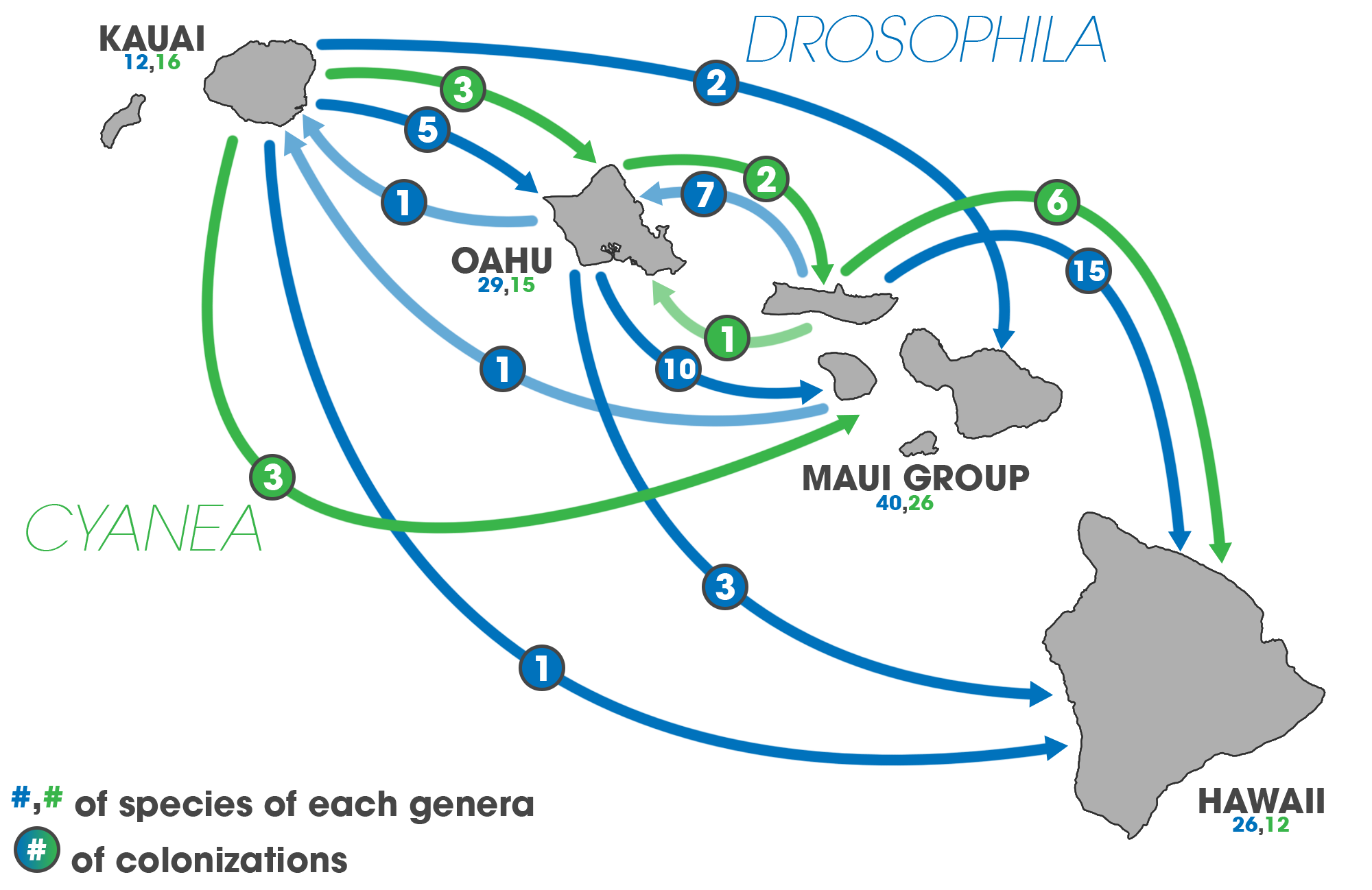 Colonization events of species from the genus Cyanea (green) and species from the genus Drosophila (blue) on the Hawaiian island chain. Islands age from left to right, (Kauai being the oldest and Hawaii being the youngest). Species peripatrically speciate as they colonize new islands along the chain spatiotemporally. Lighter blue and green indicate colonization in the reverse direction from young-to-old. Numbers along the lines indicate the number of colonization events while the colored numbers below the island names indicate the number of species in each group that inhabits the islands. Text color corresponds to each genus. Adapted from Coyne and Orr (2004).[1]